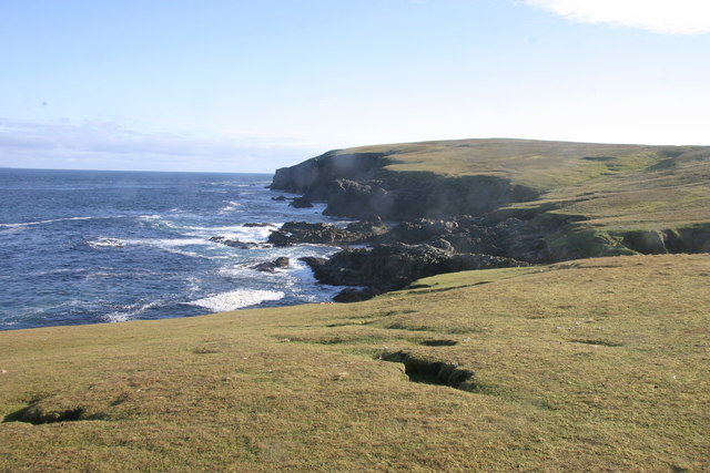 Cliffs NE coast of Foula Stunted, salt-sprayed clifftop vegetation meets cliffs